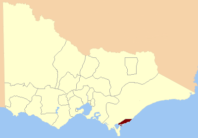 Electoral district of Alberton, Victorian Legislative Assembly.